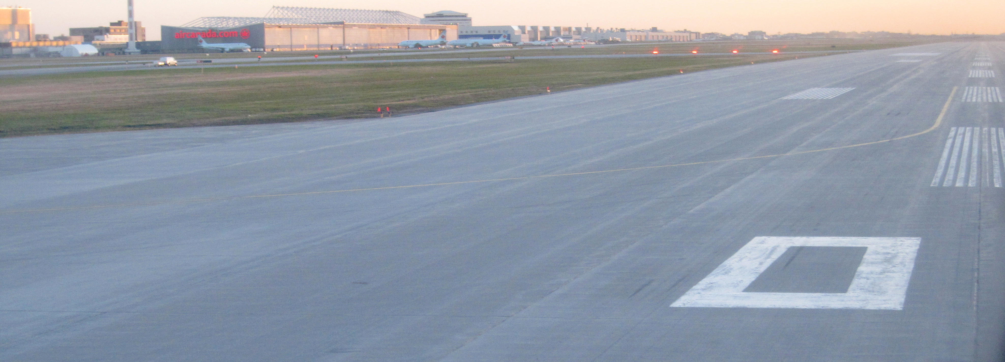 View on runway 06R/24L at Montréal-Pierre Elliott Trudeau International Airport (YUL) in April 2010.